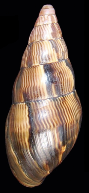 Photo of abapertural view of the shell of Corona pfeifferi. Shell height 52.2 mm. RMNH 114185. (Netherlands Centre for Biodiversity Naturalis, Leiden, the Netherlands).